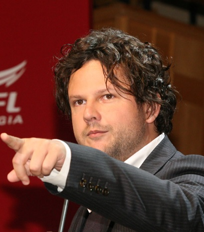 Actor and director Selton Mello